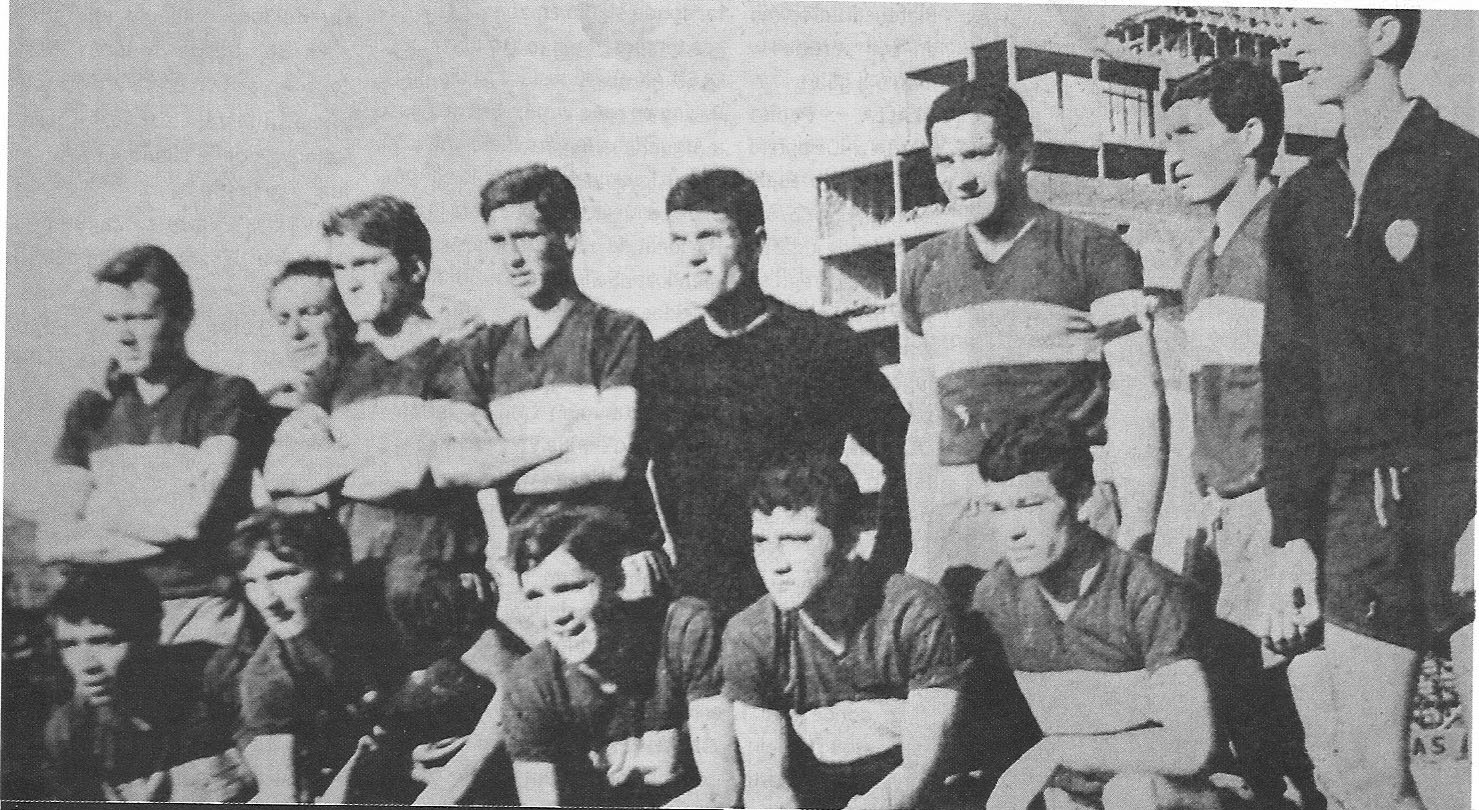 Defunct football team Arsenal de Llavallol of Argentina that won the Primera D championship in 1964.